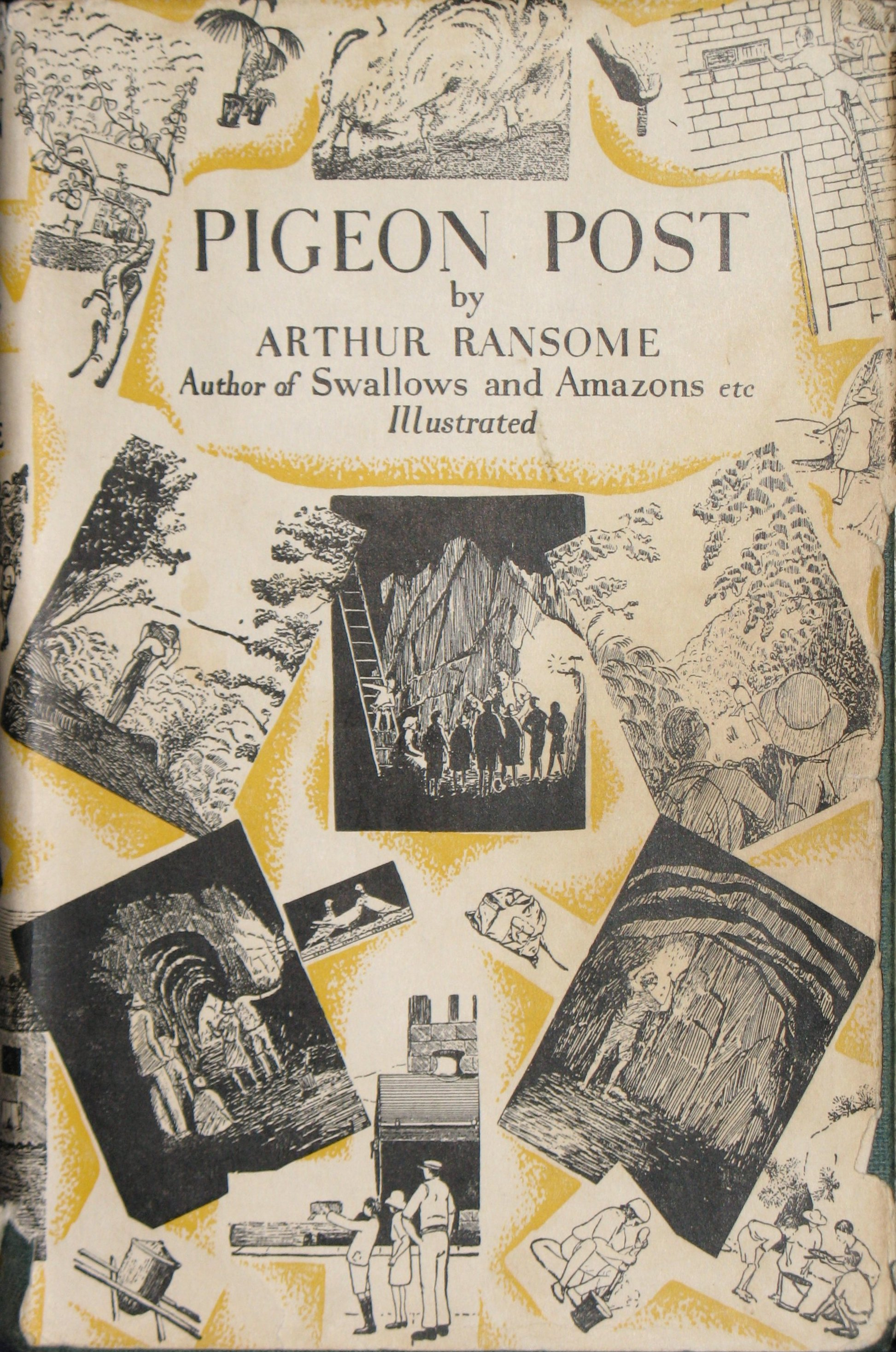 photo of Jonathan Cape edition of Arthur Ransome's 1936 novel, Pigeon Post